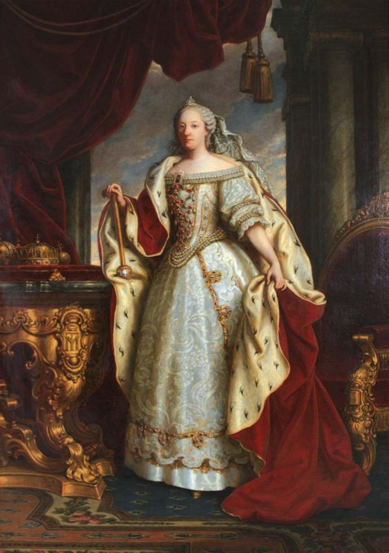 Empress Maria Thereza. The painting was ordered by the town of Subotica, for the Council Room of the Old Townhall, on the centenary of Subotica as a Free Royal Town (1779). Thanks to the Empress Maria Theresa, Queen of Hungary and Croatia (Vienna, 1717 – Vienna, 1780), official name of the town is Maria-Theresiapolis till 1848. She was the only female monarch of the House of Habsburgs, she succeded in defending her throne with the help of Hungarian nobles. The Queen is in a Hungarian court dress on the painting.